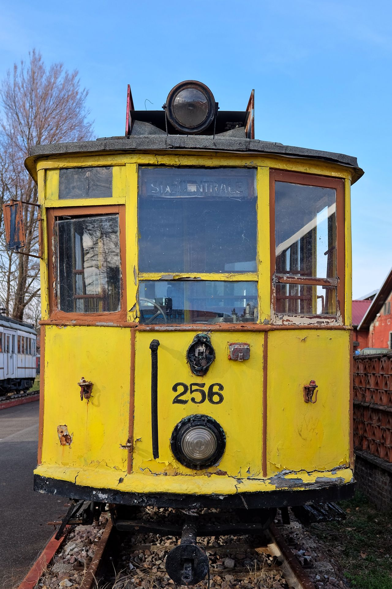 Front view of the Milan tramway type Edison, vehicle 256, at the Volandia museum in Somma Lombardo (Varese, Italy) in 2019, awaiting restoration.